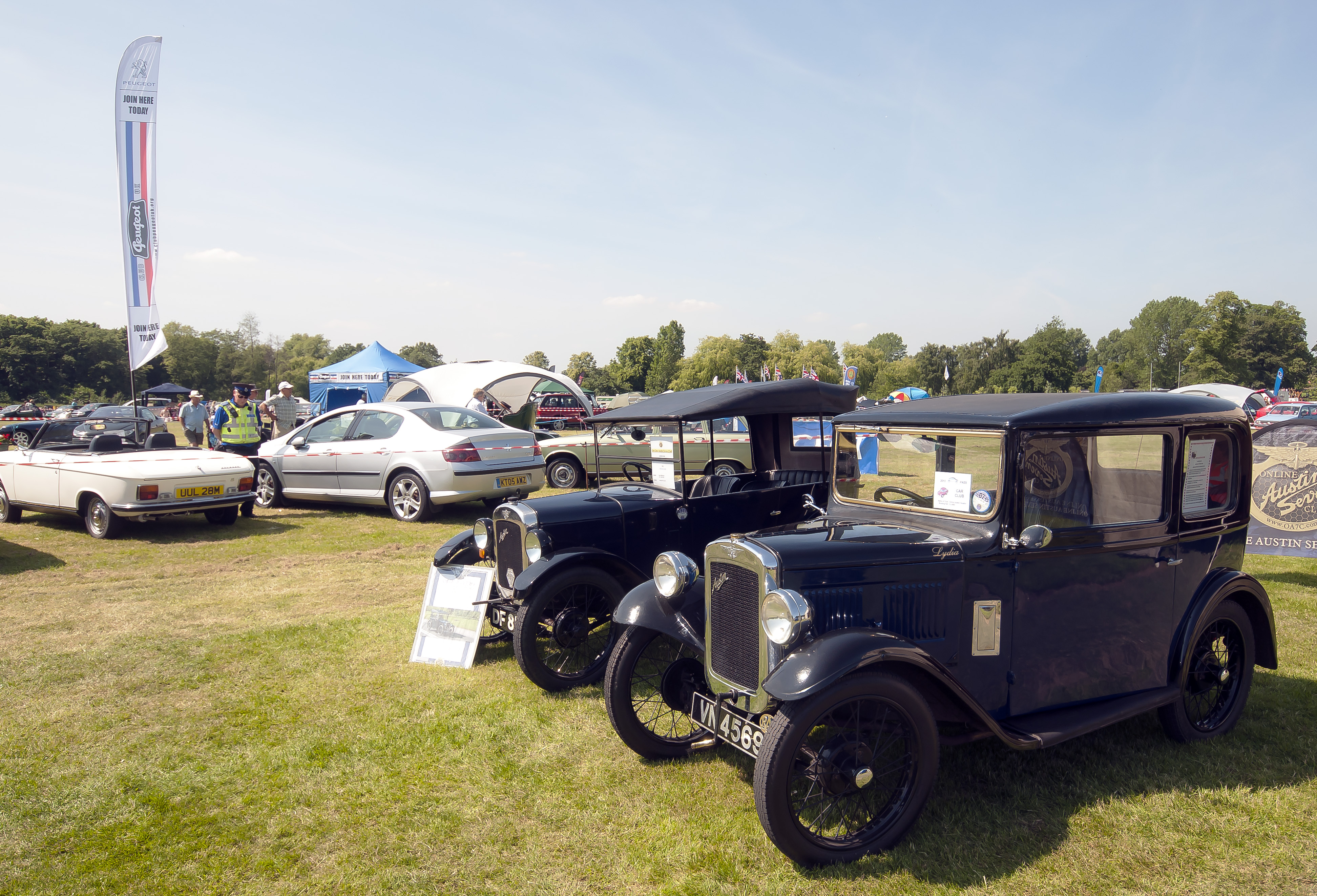 Classic cars at the 2013 'Cars In The Park' event at Beacon Park, Lichfield